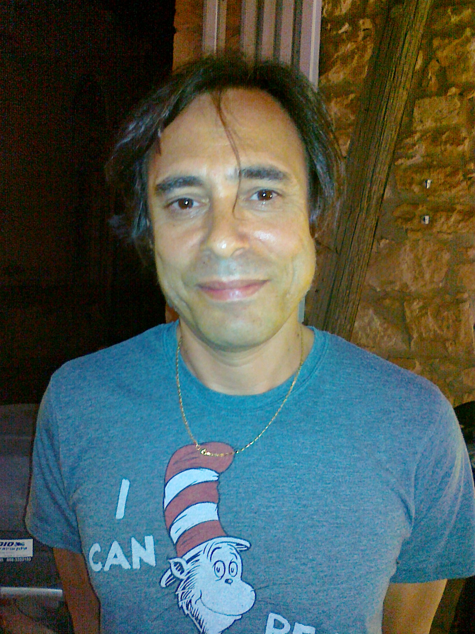 Hemi Rudner, Smilansky Festival, Be'er Sheva, June 2012